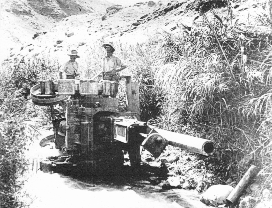 Photograph of Jericho Jane gun captured in Wadi Nimrin